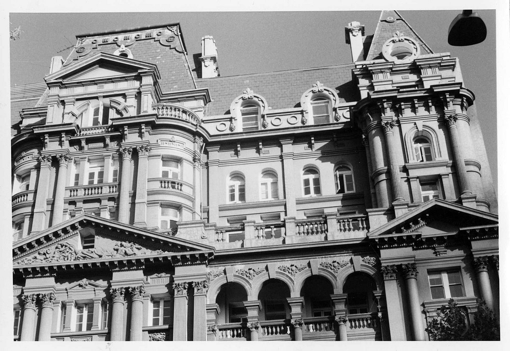 Federal Coffee Palace - Hotel, John T Collins, 1972, detail, State Library Victoria